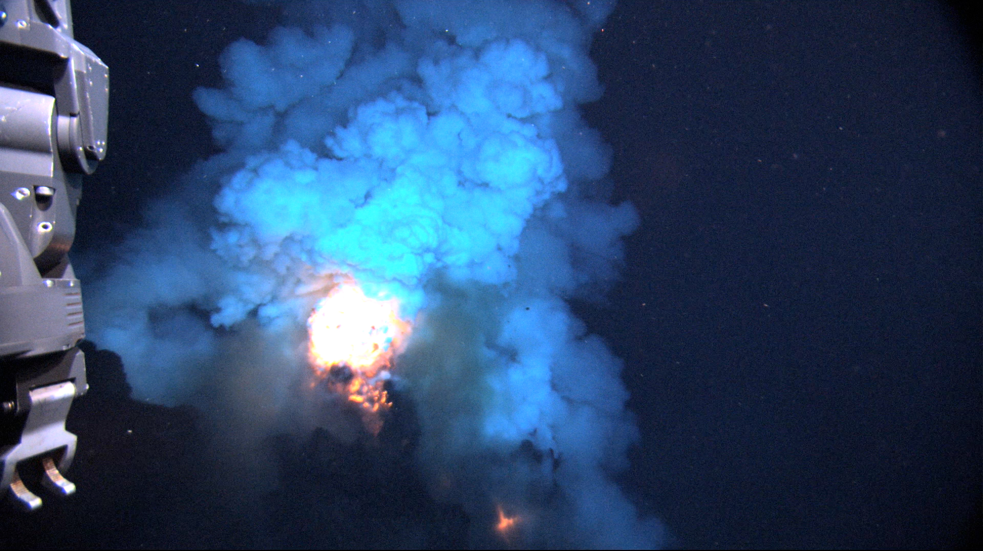 Hot magma blows up into the water before settling to the seafloor. Foreground: Jason remotely-operated vehicle with sampling hoses. Image is about 6-10 feet across in an eruptive area about 100 yards that runs along the summit.